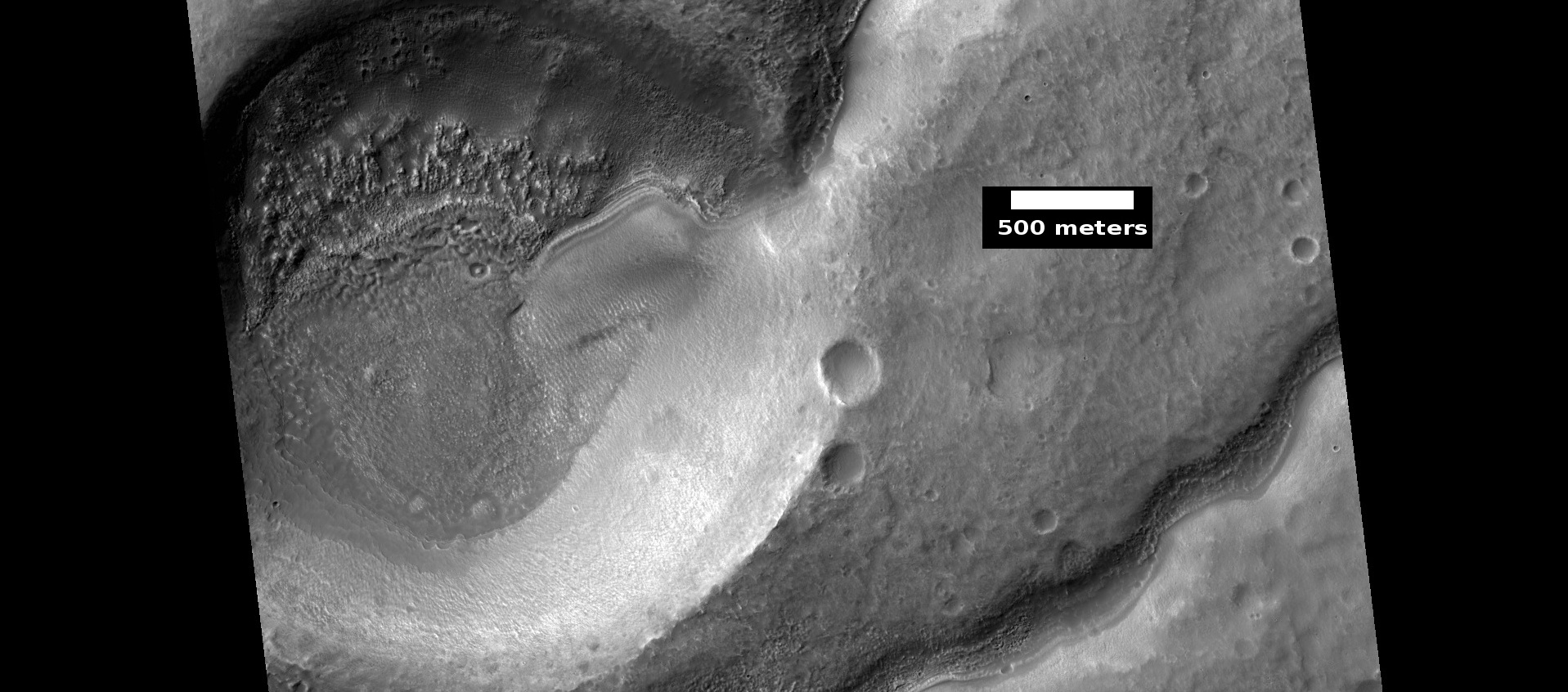 Crater and valley, as seen by hirise, under HiWish program. Location is 40.5 S and 257 E.